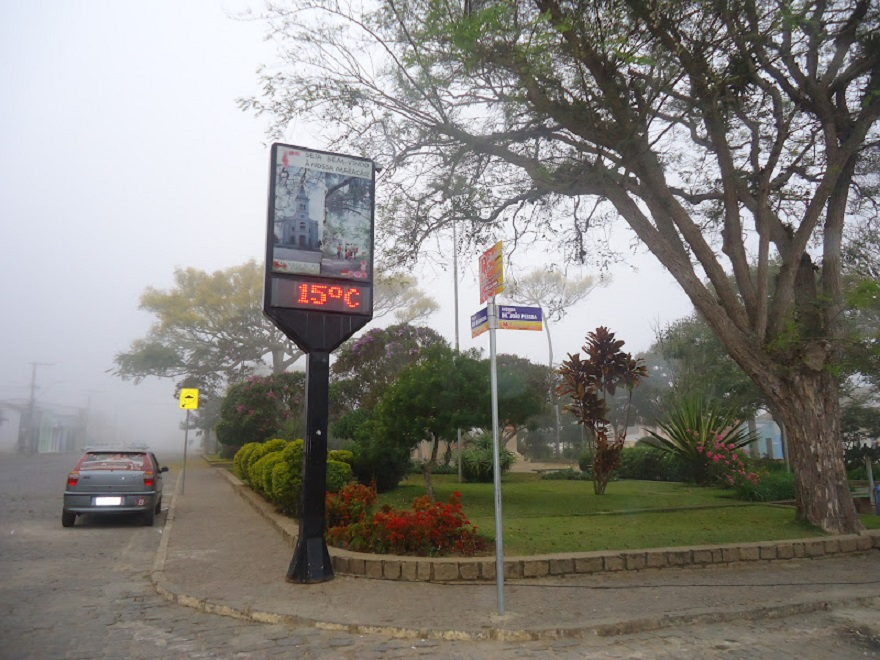 The Bahia Switzerland